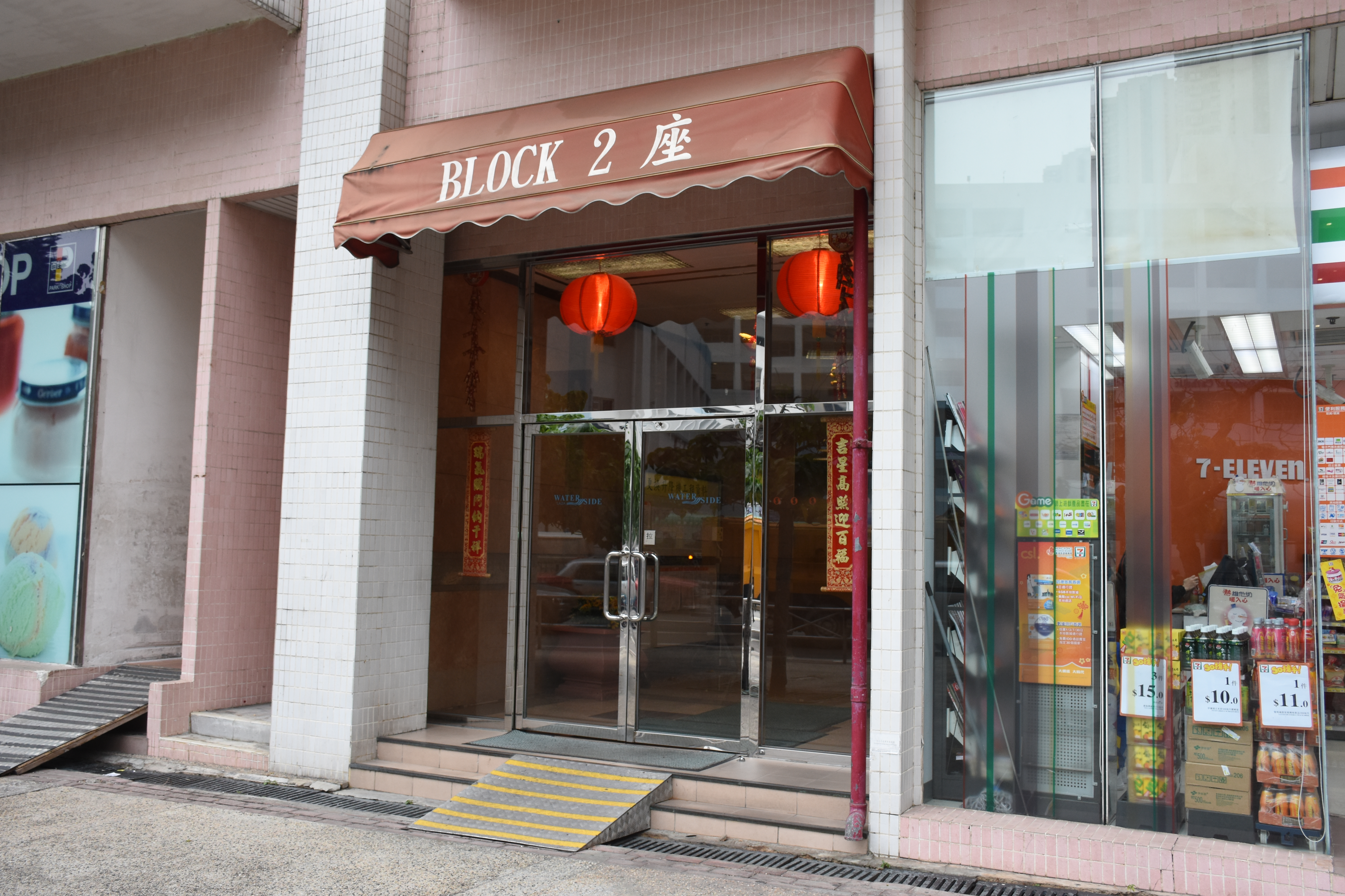 Entrance of Waterside Plaza Block 2.